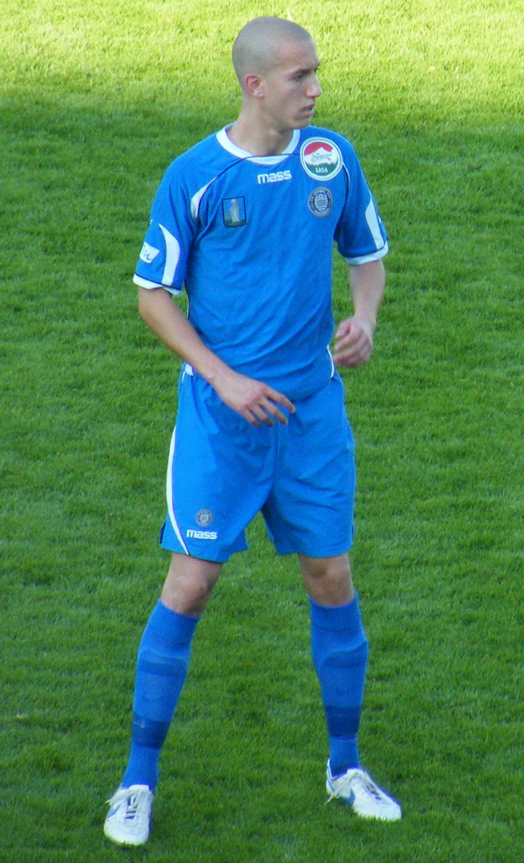 Gergely Délczeg Hungarian football player